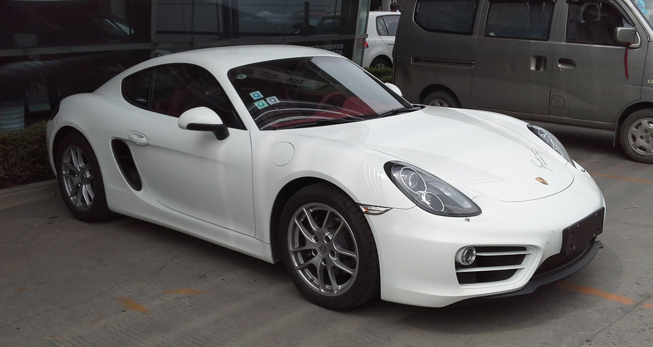 Porsche Cayman - Type 981 - in a second-hand car market in Chengdu, Sichuan province, China.